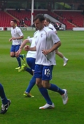 Steven Gregory warms up before the Walsall F.C. vs Gillingham F.C. game today.